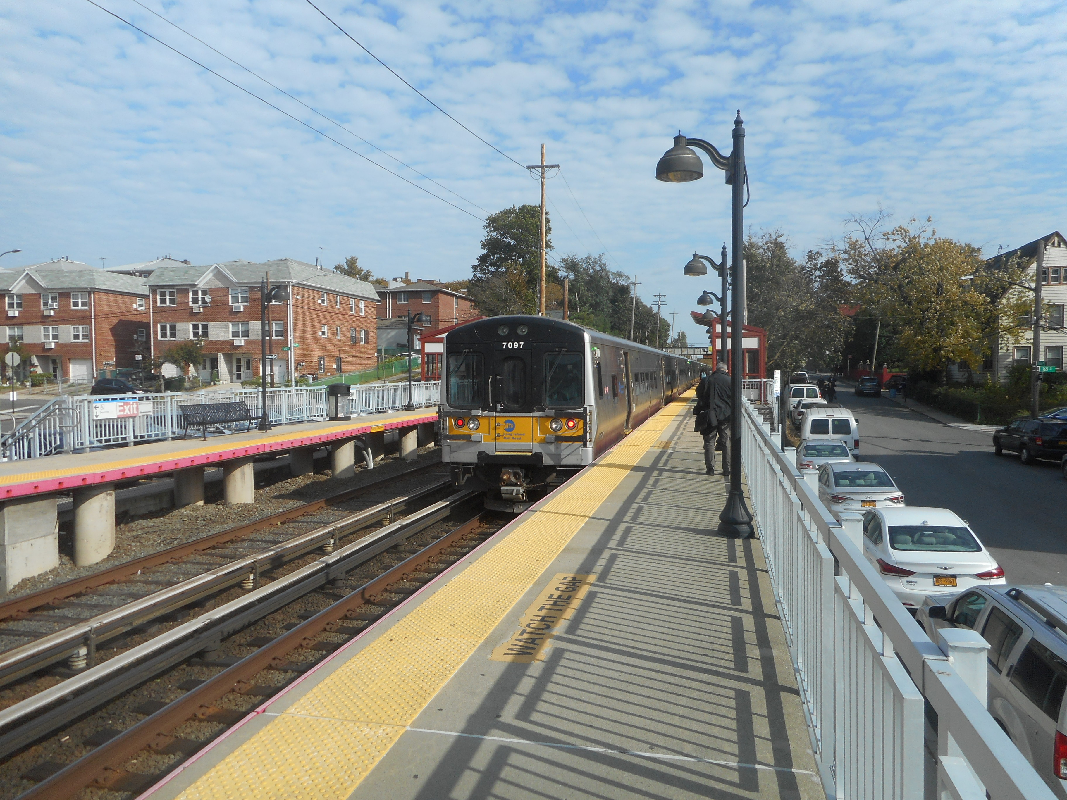 Images related to the Broadway LIRR station on the Port Washington Branch of the Long Island Rail Road in the Murray Hill neighborhood of the Flushing section of Queens, New York City. The station is actually named for Broadway, the old name of the segment of Northern Boulevard (NY 25A) in this part of Queens. Taken on October 22, 2018. Further details to come later.